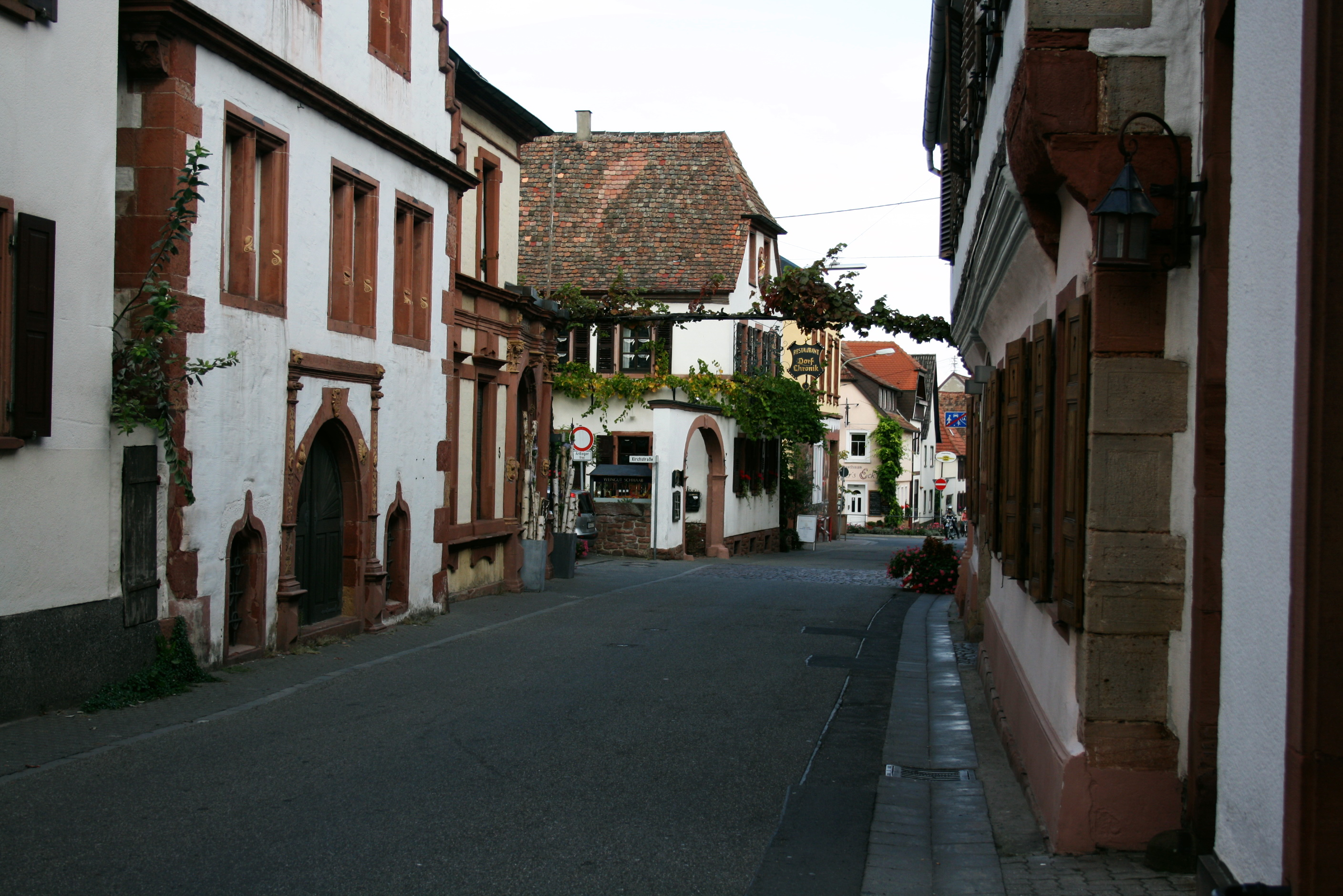 Steet in the village Maikammer.